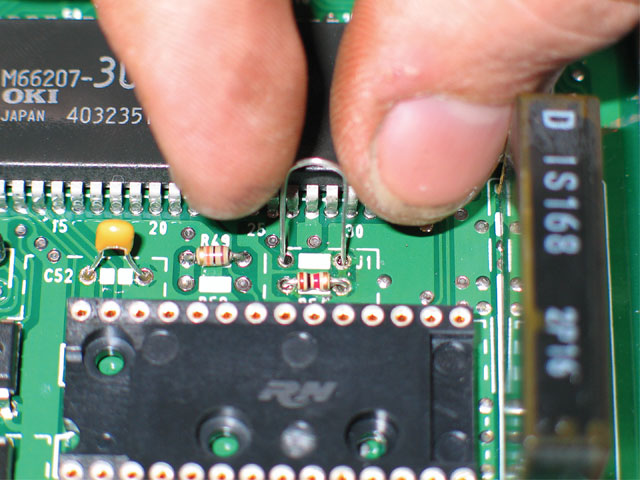 A example of jumper wire